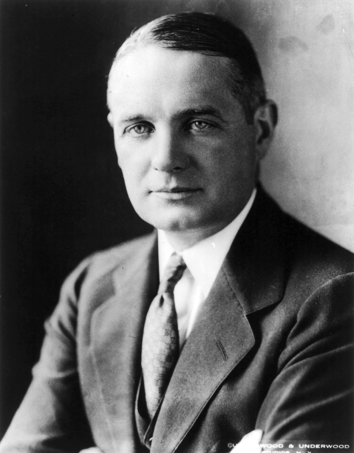 William J. Donovan, United States Department of Justice employee (future head of the Office of Strategic Services)